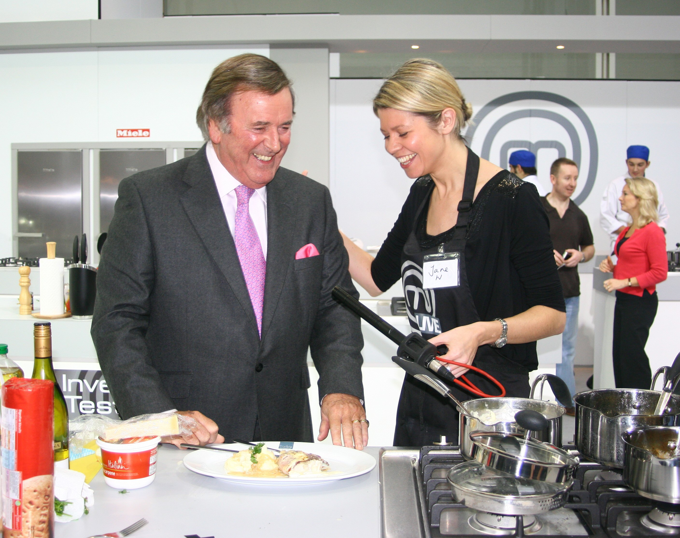 Terry Wogan at Masterchef Live, London 2009